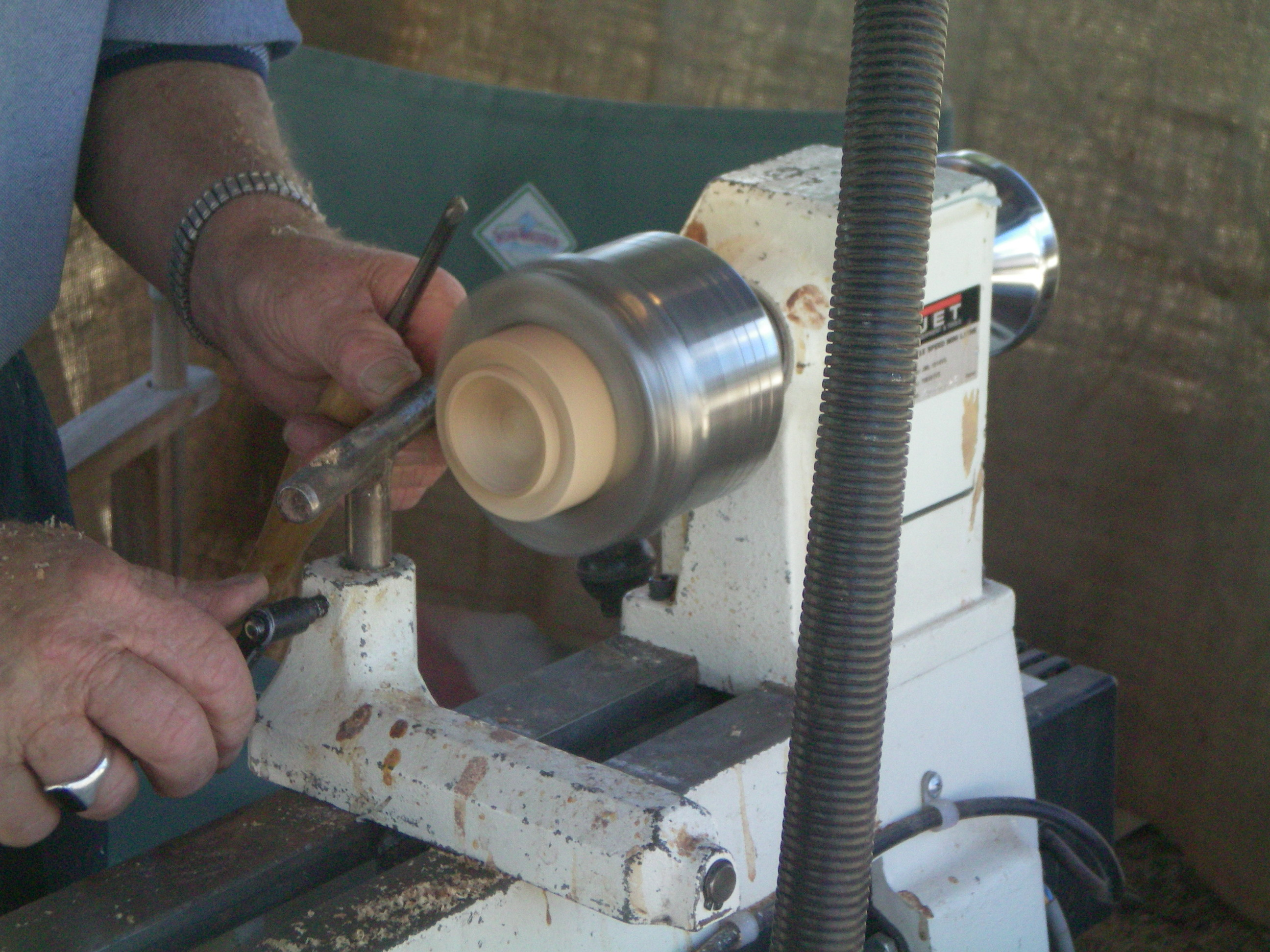 Self-explanatory.